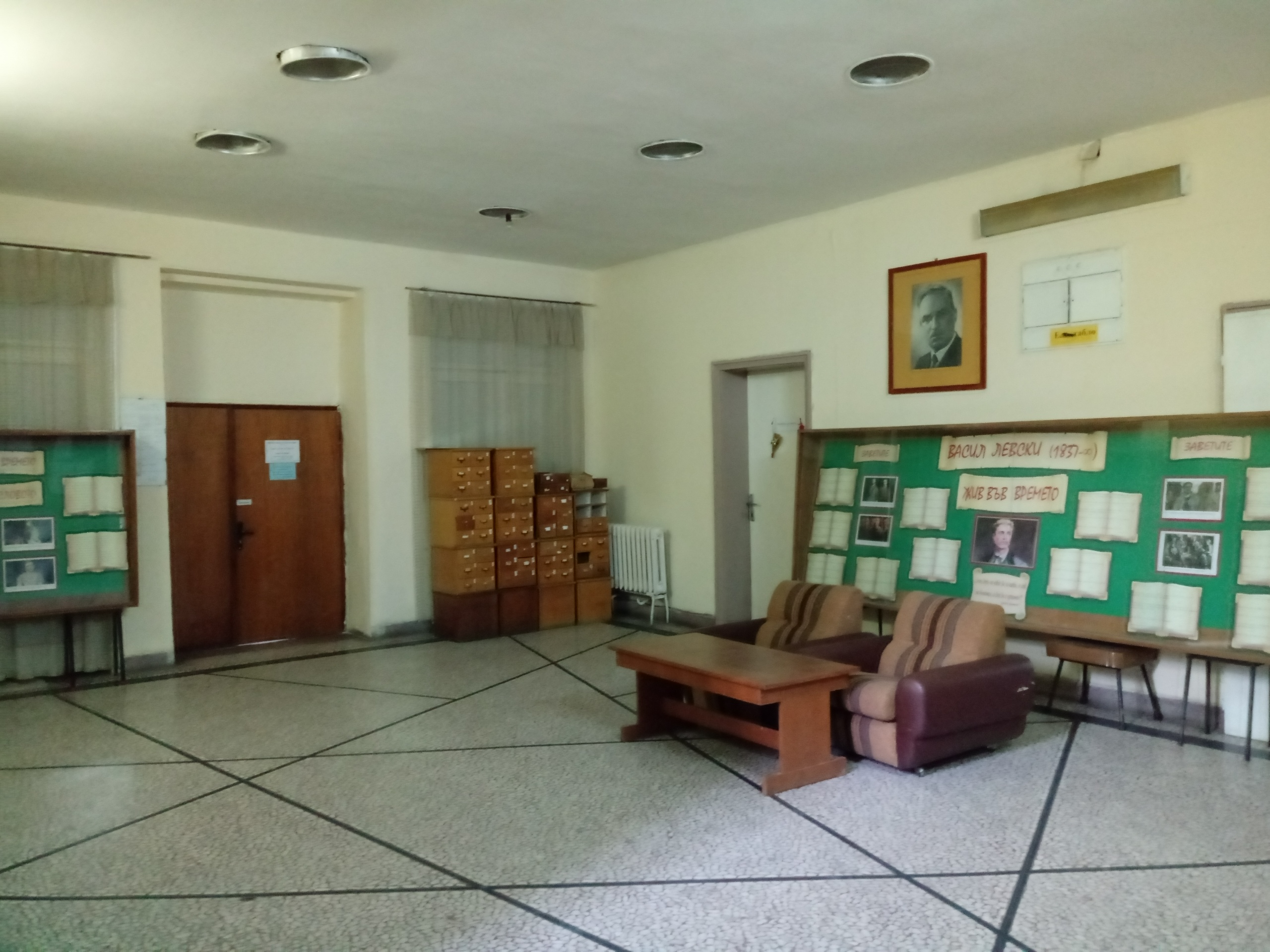 Lovech regional library - interior, floor 2